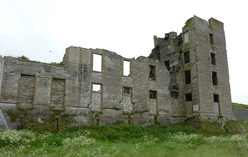 Thurso Castle, Thurso, Highland, Scotland